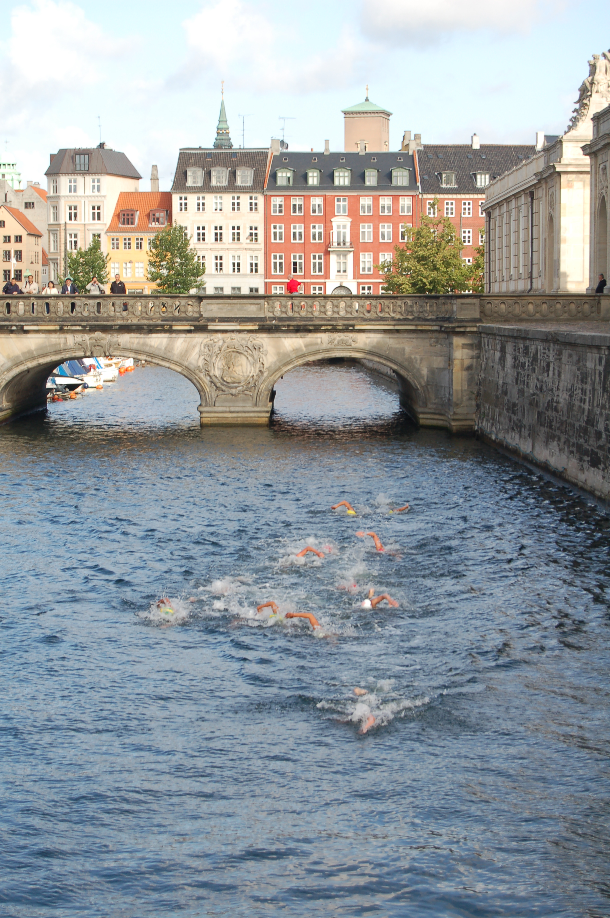 Swimmers in the Frederiksholm Canal, Copenhagen, at the 2009 Round Christiansborg open water swimming event